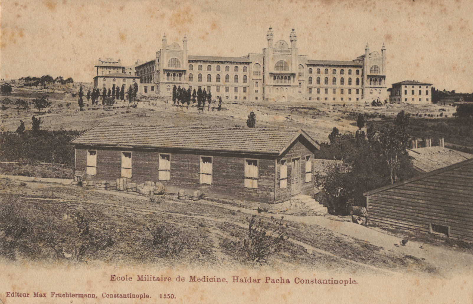 The construction of Marmara University’s Haydarpaşa Campus as the department of medicine began on the order of Abdülhamit II, under the name Mekteb-i Tıbbiye-i Şahane in 1895. The building was designed by Alexandre Vallaury and Raimondo D’Aronco. Several building materials were brought from Anatolia and Europe for the construction and different styles ranging from the First Nationalist Architecture to Art Deco were employed on the façades. The building opened in 1903 and after the union of the military and civil medicine departments, it took the name Haydarpaşa Department of Medicine. After the University Reform in 1933, this department moved to the European side and the building was converted into a high-school. In 1933, it became part of Marmara University and is still used as The School of Medicine and Law. SALT Research, Photography Archive SALT Research, Ali Saim Ülgen Archive Marmara Üniversitesi Haydarpaşa Kampüsü’nün, Mekteb-i Tıbbiye-i Şahane adı altında tıp fakültesi olarak inşasına 1895’te, II. Abdülhamit döneminde başlandı. Alexandre Vallaury ve Raimondo D’Aronco tarafından tasarlanan bina için Anadolu’nun yanı sıra farklı ülkelerden çeşitli malzemeler getirildi; cephelerde, I. Ulusal Mimarlık’tan Art Deco’ya farklı üsluplar kullanıldı. 1903’te hizmete açılan bina, 1909’da askerî ve sivil tıbbiyelerin birleştirilmesiyle Haydarpaşa Tıp Fakültesi adını aldı. 1933’te, Üniversite Reformu sırasında Avrupa yakasına taşındı; Mekteb-i Tıbbiye binası Haydarpaşa Lisesi’nin kullanımına geçti. 1983’te Marmara Üniversitesi bünyesine katılan bina, hâlen aynı üniversitenin tıp ve hukuk fakültelerine ev sahipliği yapmaktadır. SALT Araştırma, Fotoğraf Arşivi SALT Araştırma, Ali Saim Ülgen Arşivi